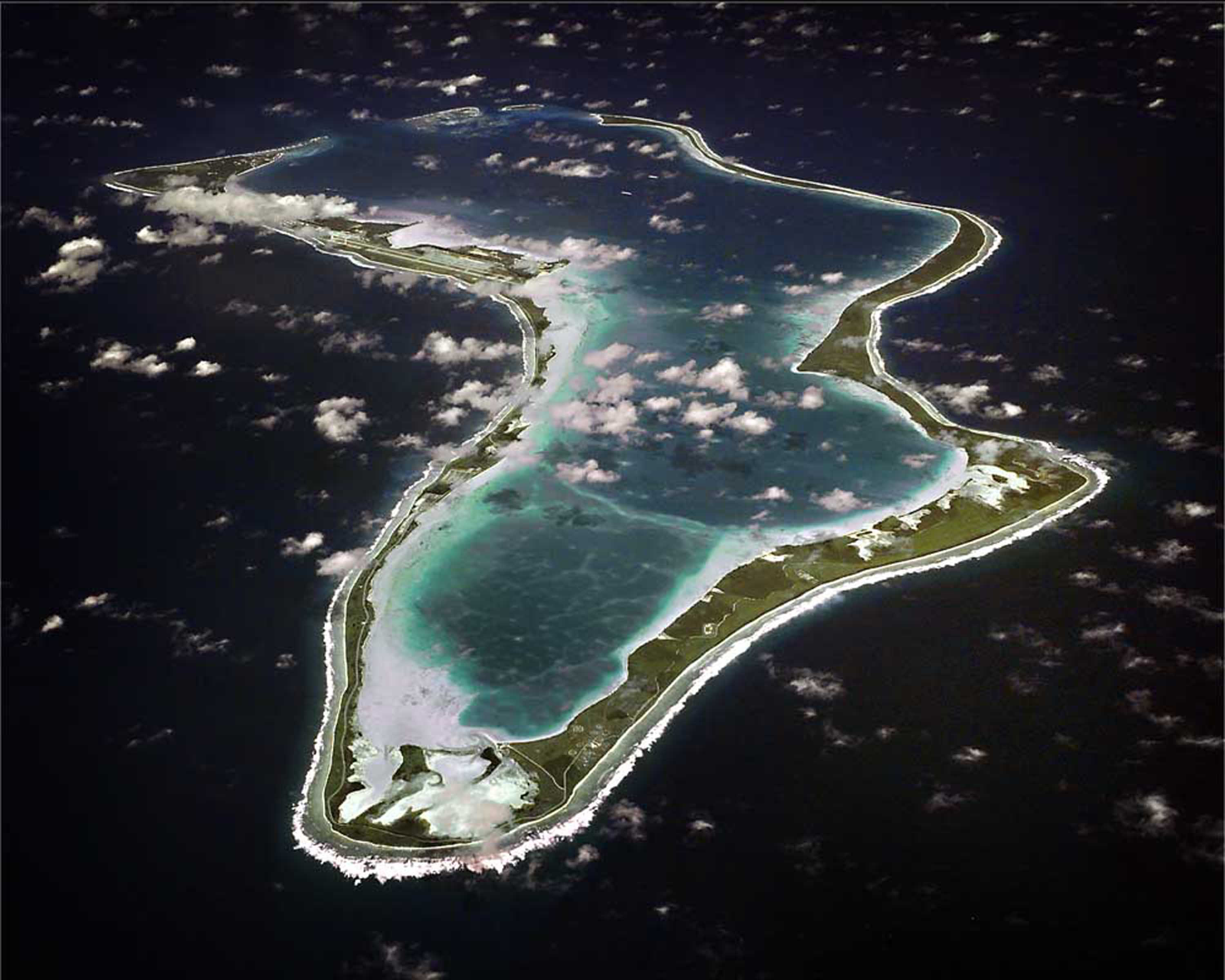 An aerial view of Diego Garcia, the small installation winner of the U.S. Navy Commander, Navy Region Japan Installation Excellence Award.